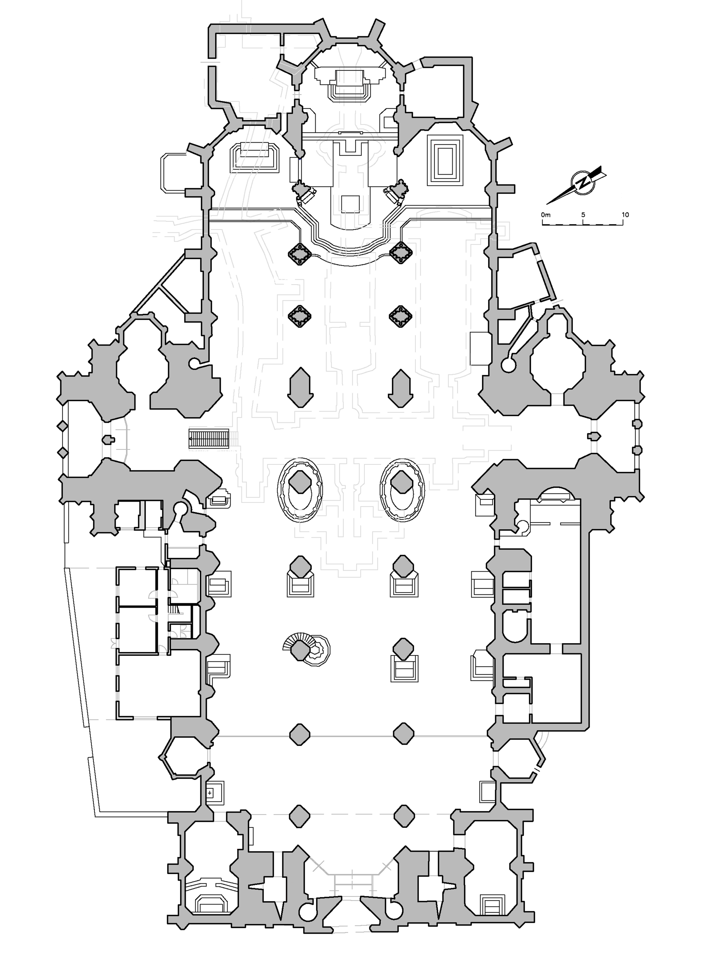 plane of the St. Stephen's Cathedral, Viena